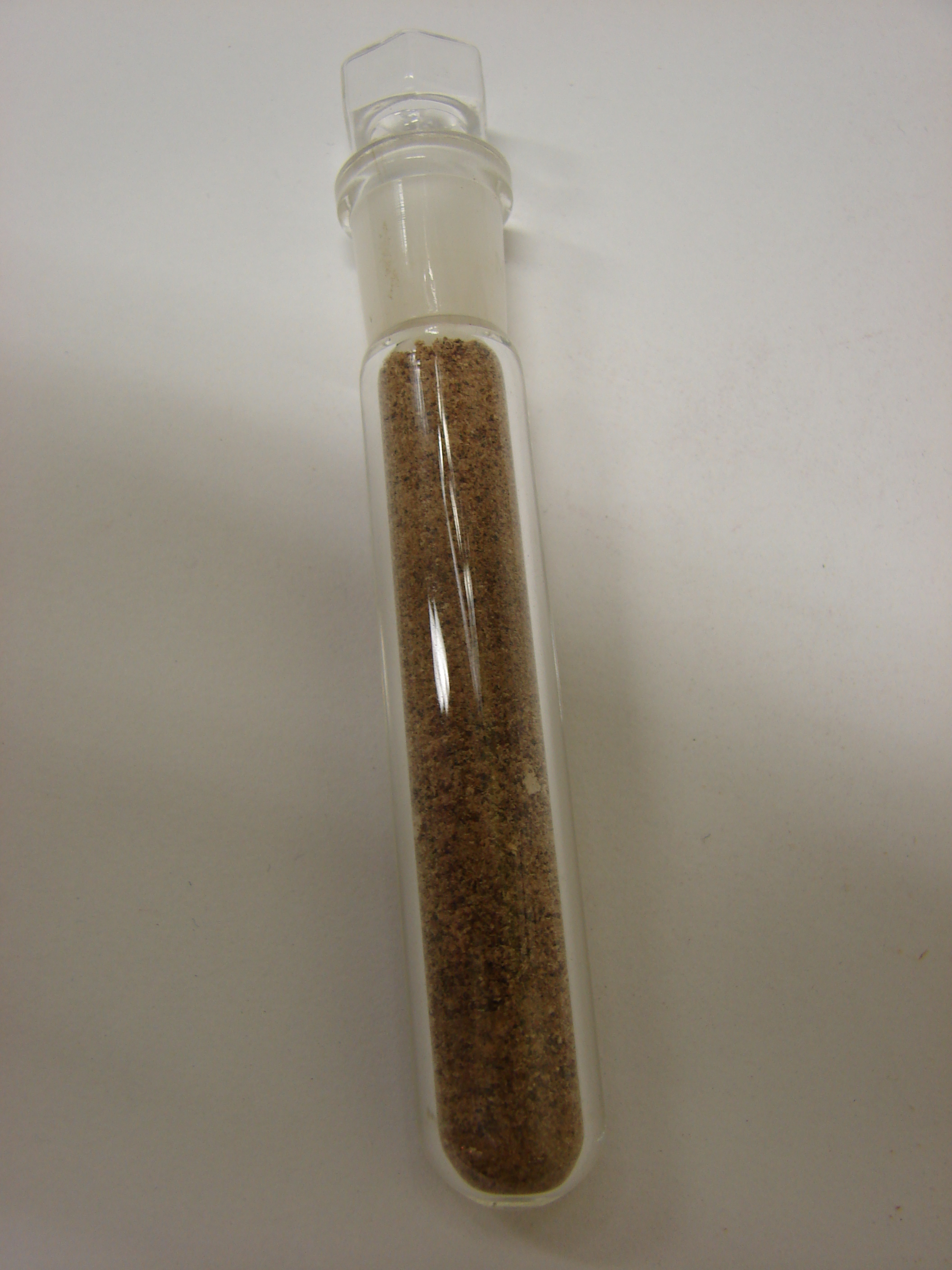 Castoreum, Castor fiber